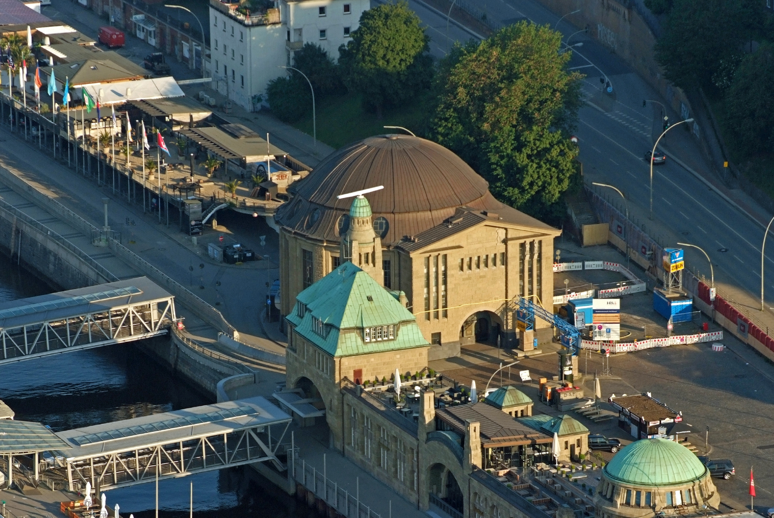 Entrance building to the Old Elbe tunnnel, Hamburg (Hot air balloon project)